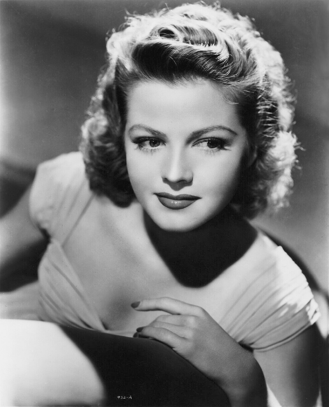 Publicity photo of Jean Rogers